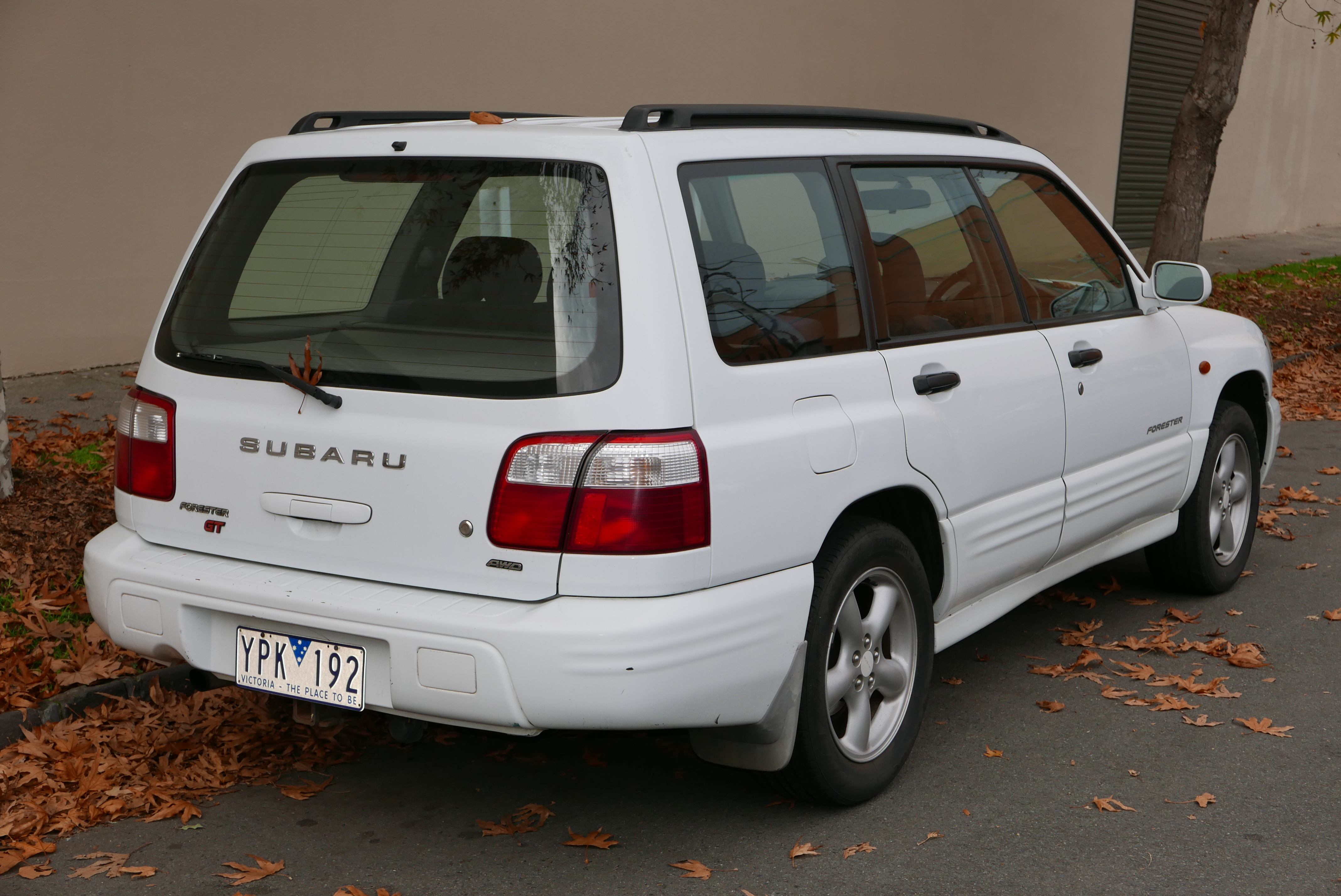 2000 Subaru Forester (SF5 MY00) GT wagon. Photographed in Alphington, Victoria, Australia. Vehicle registration enquiry resultsJurisdictionVictoriaRegistrationYPK192Chassis codeJF2SF5KD3YG041321Engine codeA918929Compliance date2000-05Year of manufacture2000